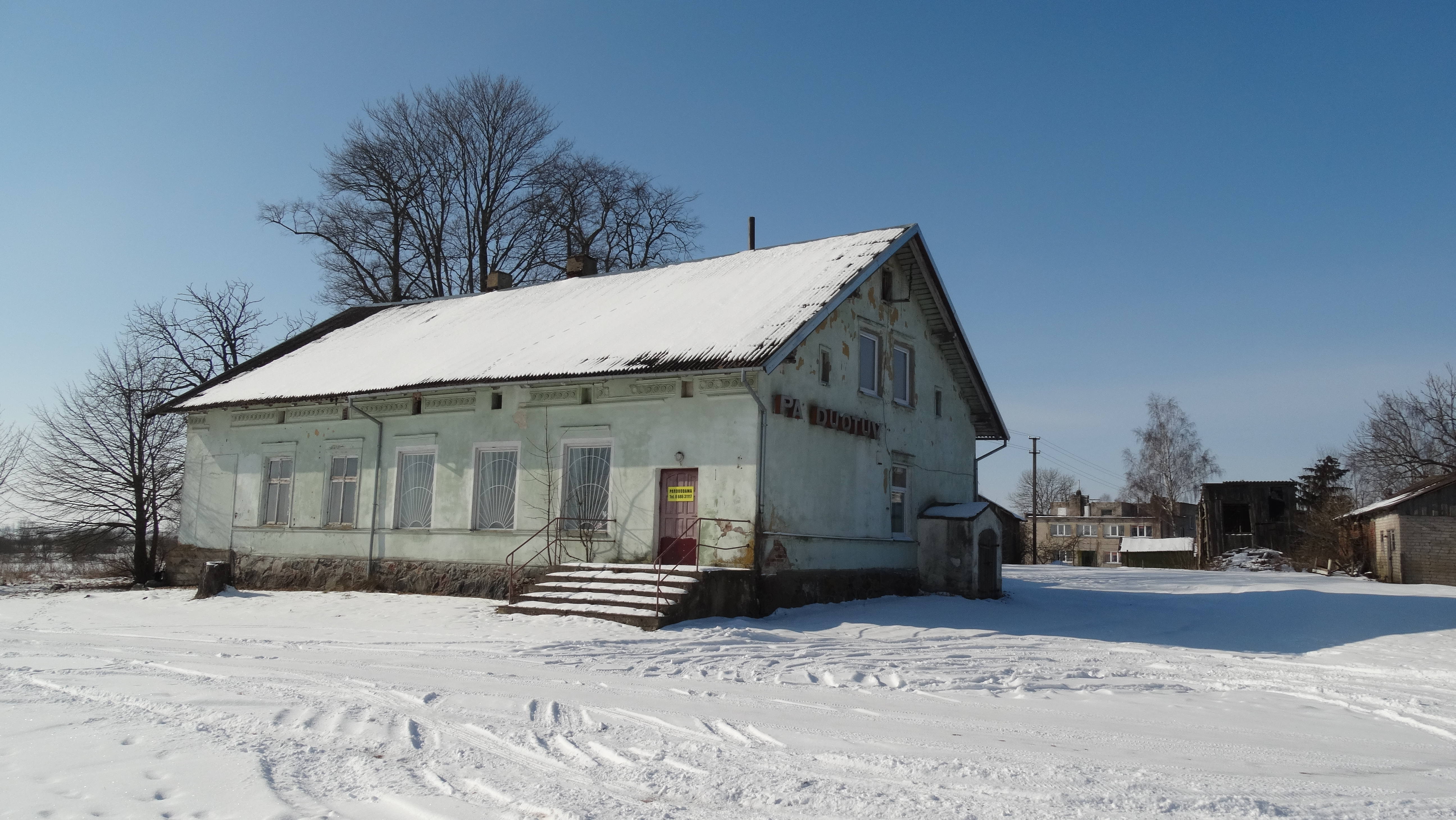 Plaškiai, Pagėgiai Municiality, Lithuania